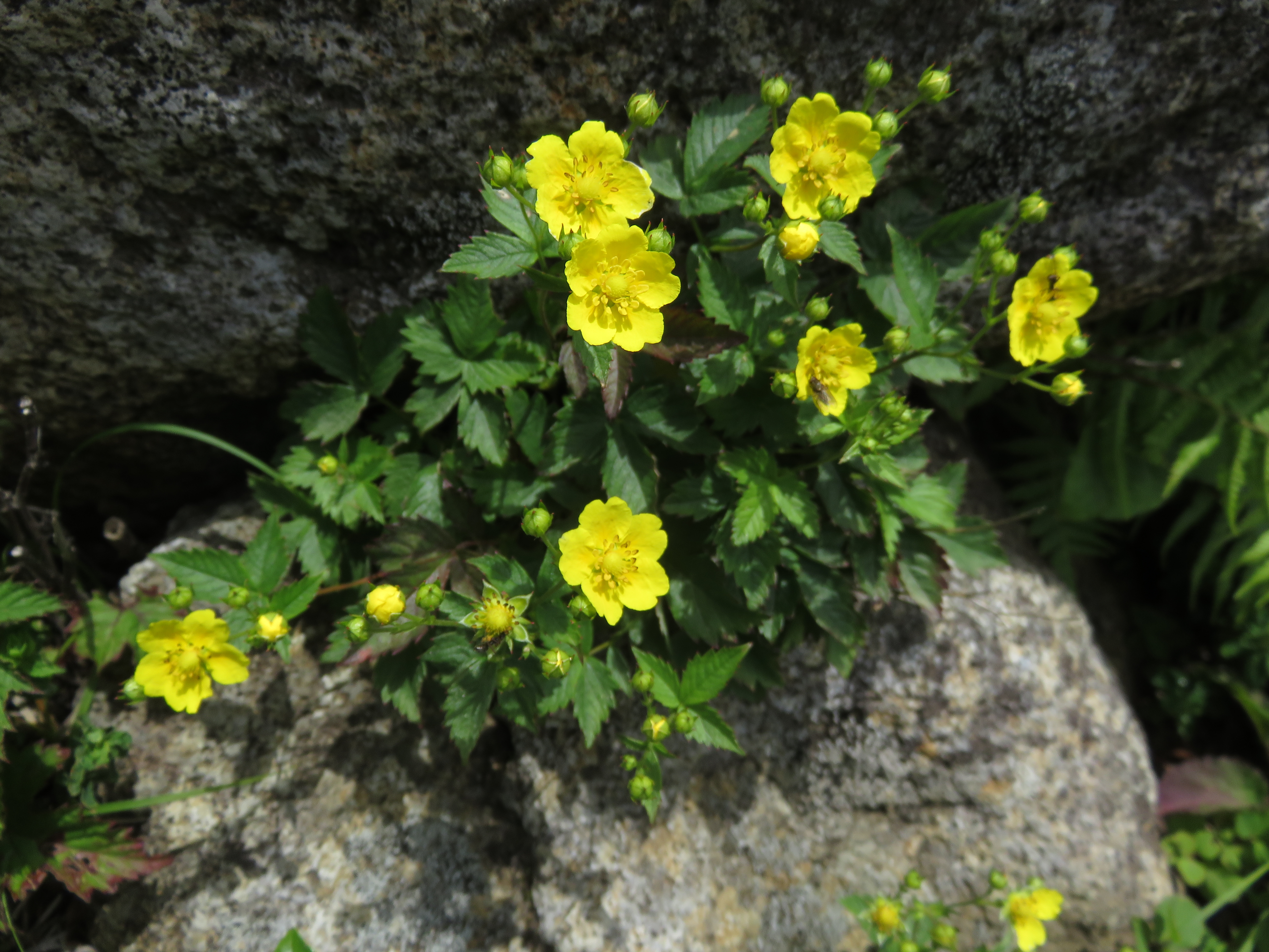 Potentilla ancistrifolia var. dickinsii, Mount Kimen, Fukushima pref., Japan